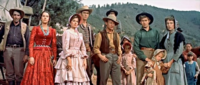 This image is a screenshot from a public domain trailer for the 1956 film, The Last Wagon . Trailers for movies released before 1964 are in the Public Domain because they were never separately copyrighted.